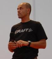 Czech mountain climber Radek Jaroš.